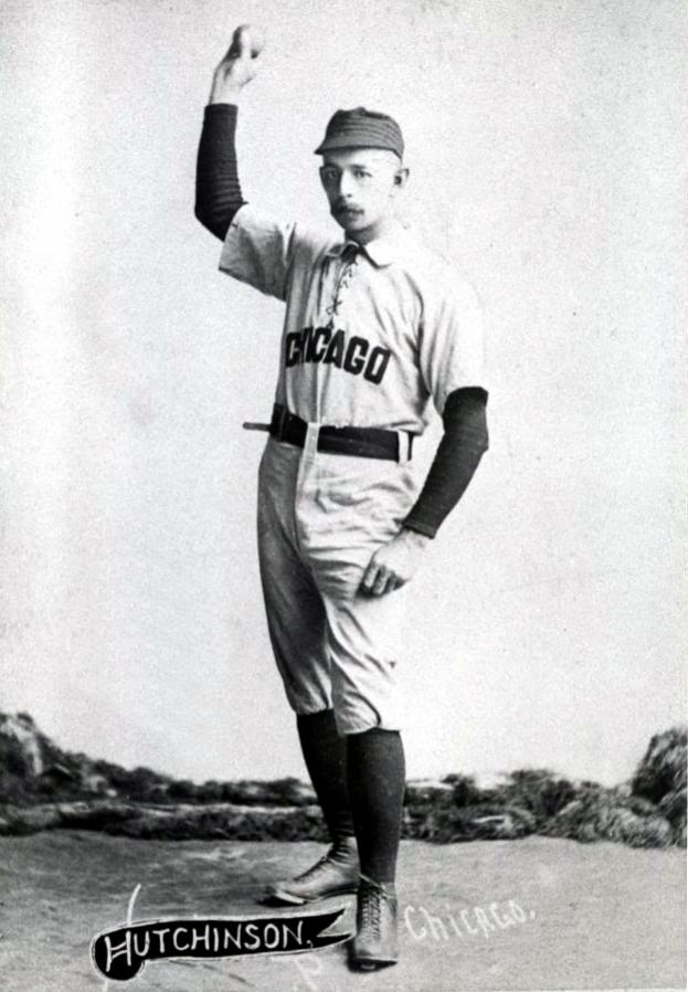 Major League Baseball player Bill Hutchinson